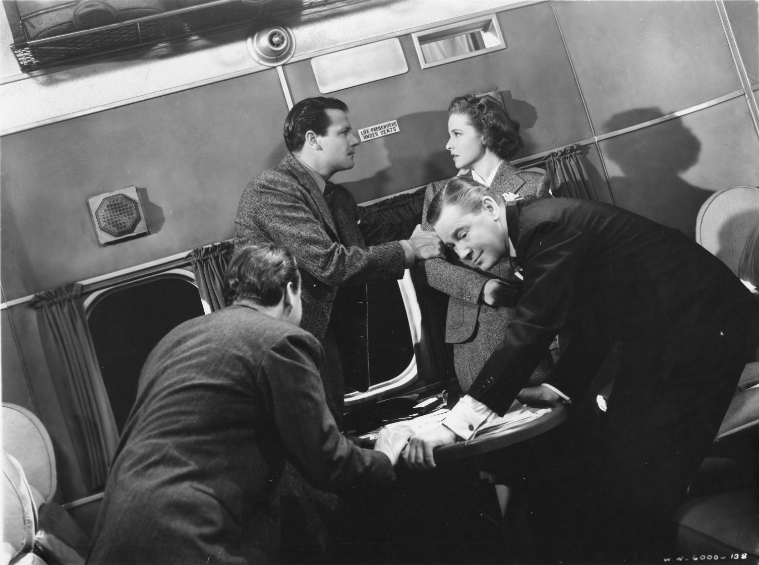 Alfred Hitchcock's Foreign Correspondent (1940) film still.See also film still. No copyright notice.